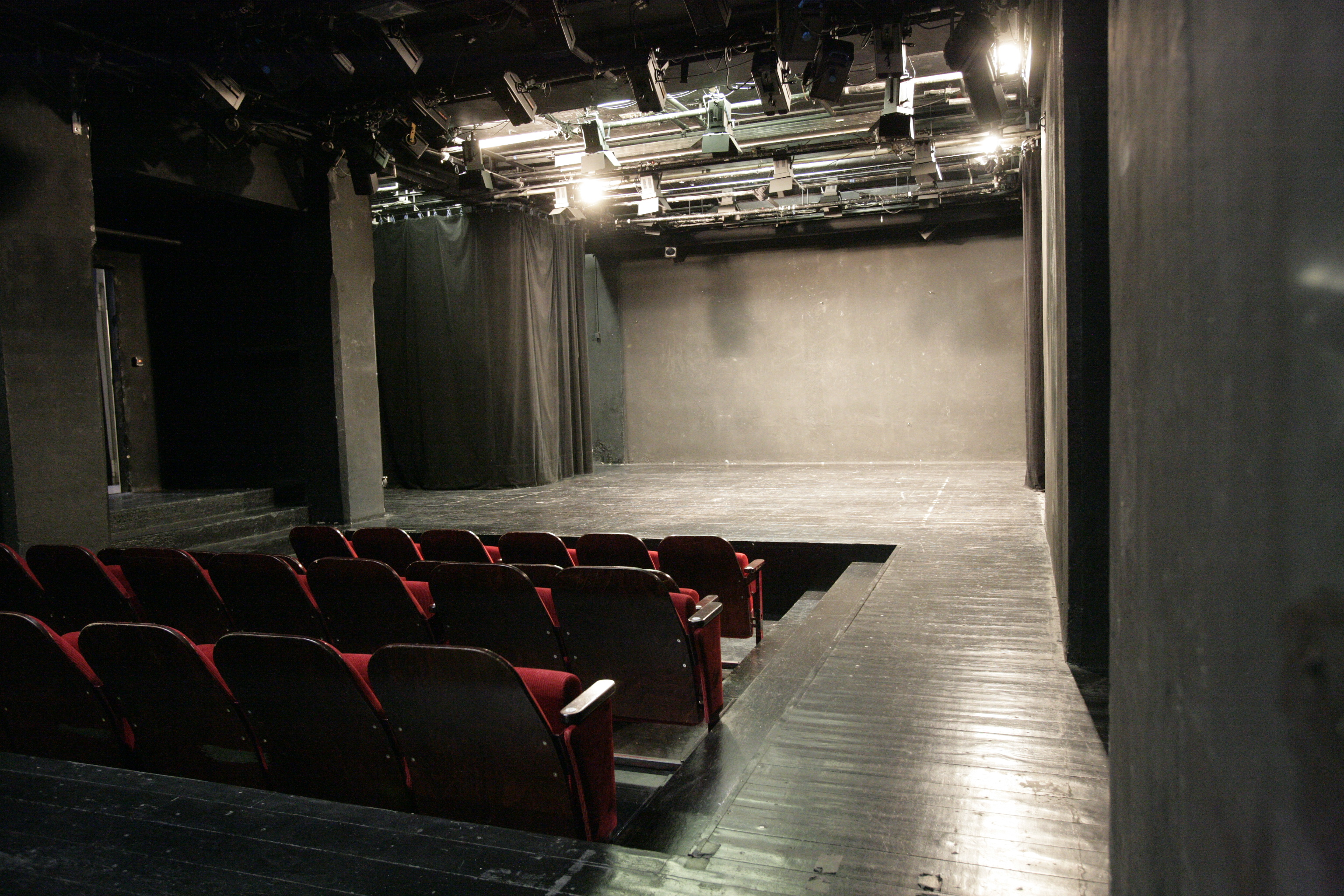 Das Theater in der Garage